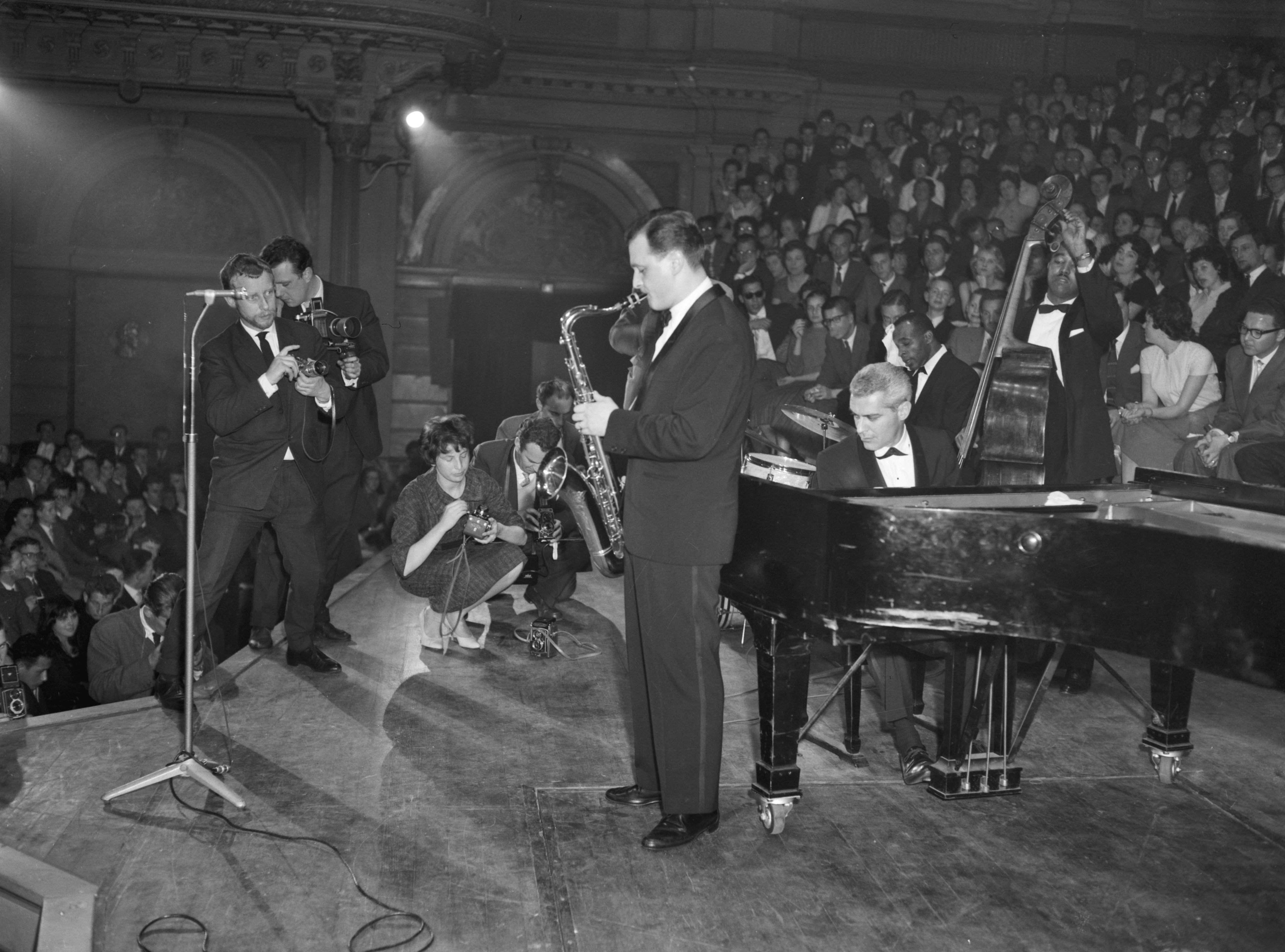 "Jazz at the Philharmonica" in the Concertgebouw, Amsterdam. Stan Getz, tenor saxophone & Lou Levy, piano. 11 April 1959